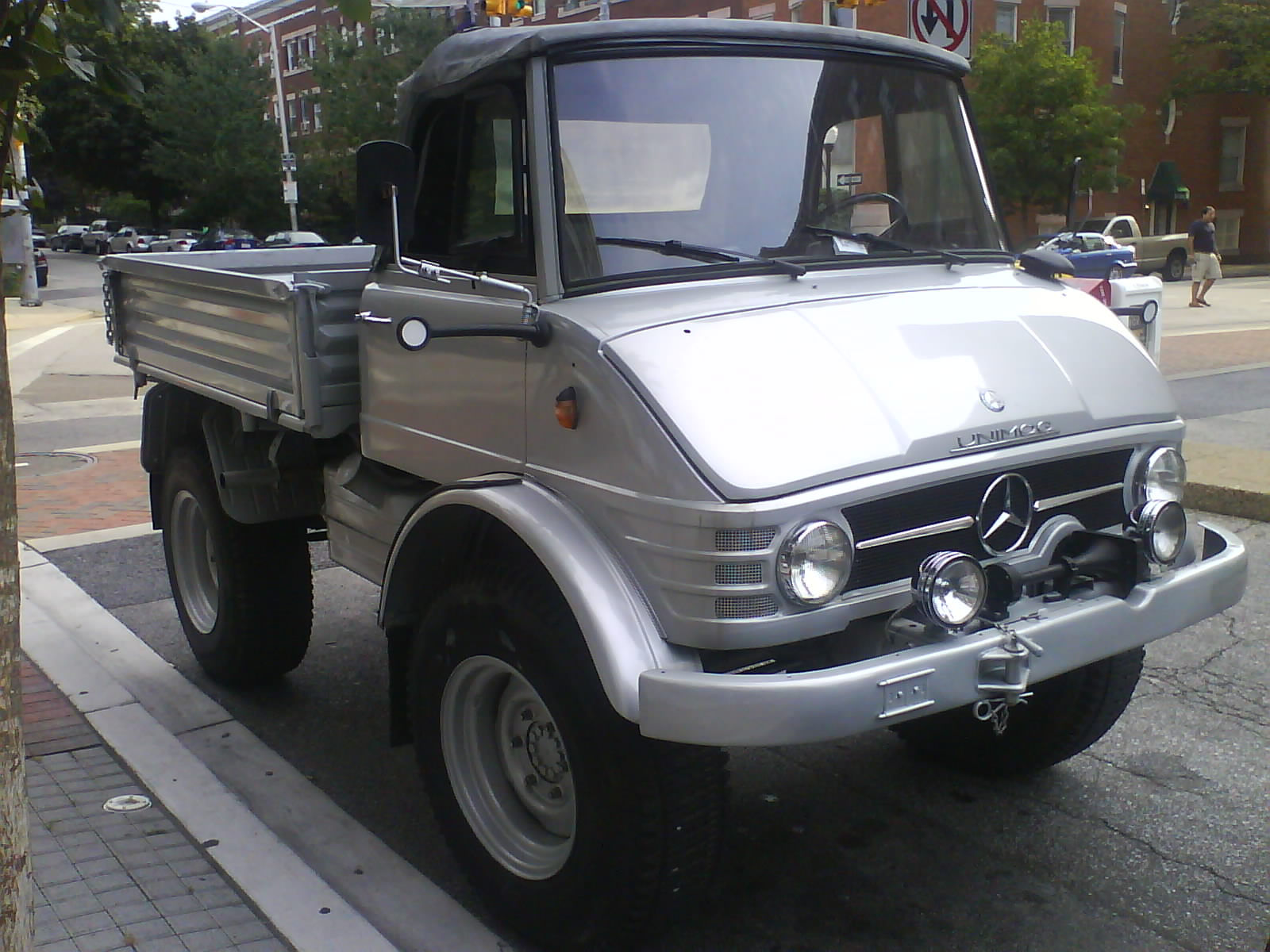 Must have terrible mileage. St Paul and 31st.